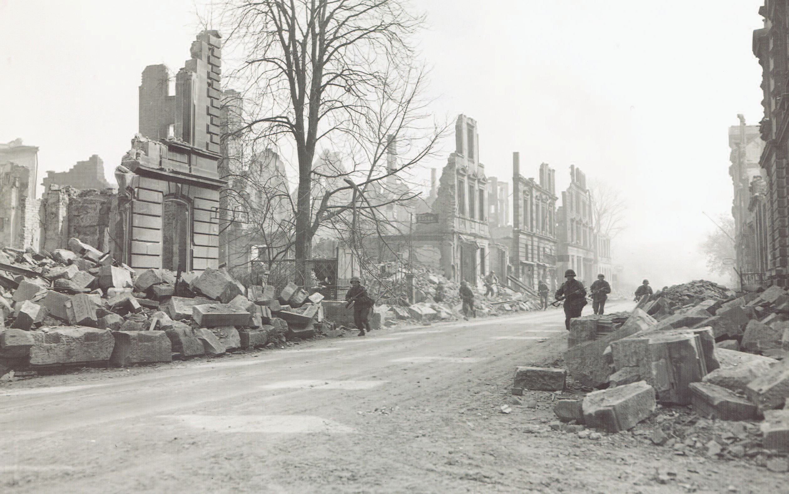 Street fighting in destroyed Heilbronn in April 1945: US soldiers of the 100th Infantry (“Century”) Division, 399th Infantry Regiment, 1st Battalion